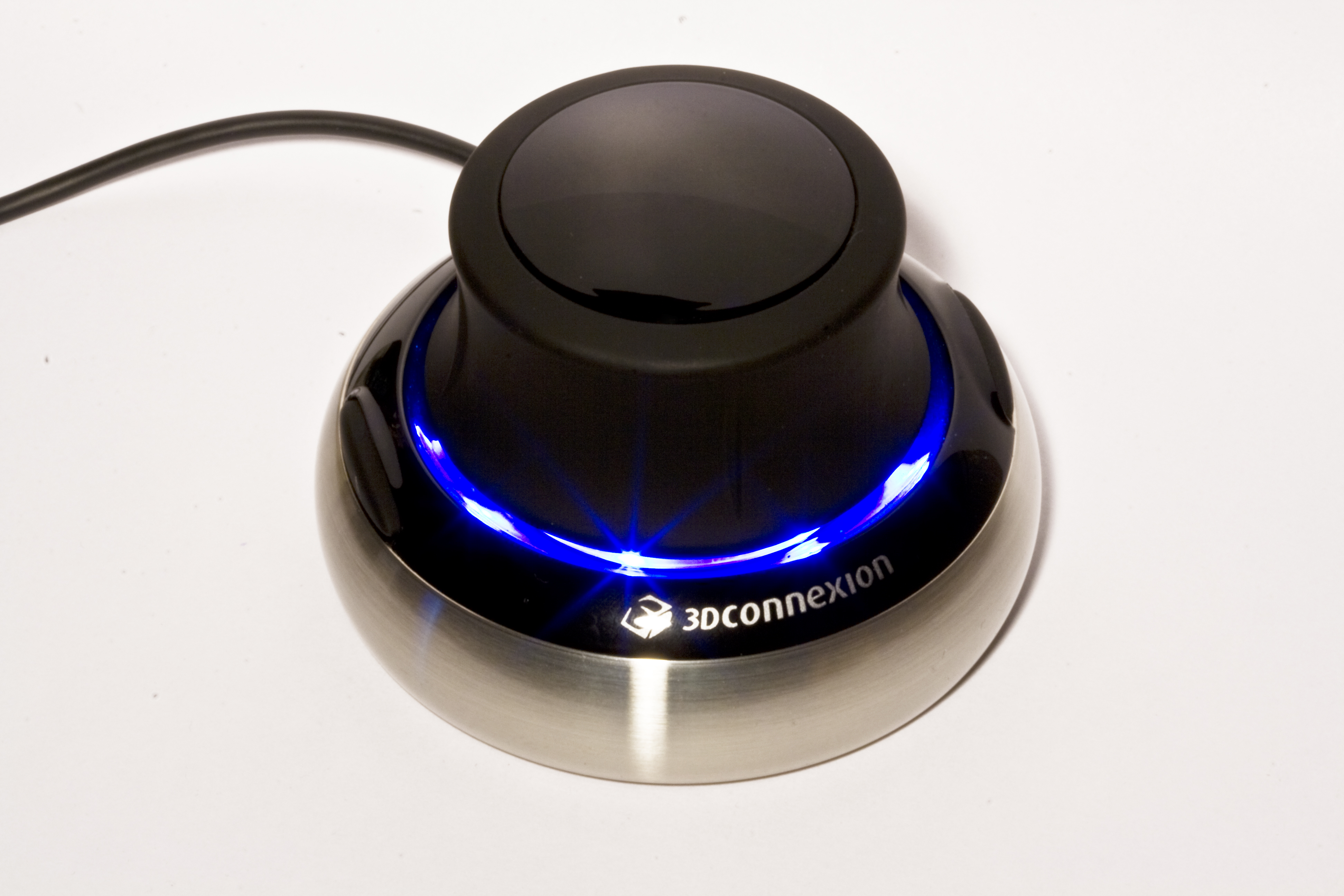 3Dconnexion input-device with 6 degrees of freedom